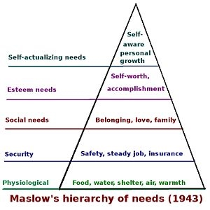 Diagram showing the hierarchy of needs based on Abraham Maslow's theories in the 1950s.